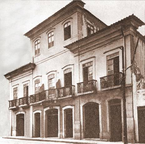 House of the Viscount of São Lourenço, in Rio de Janeiro city, Brazil